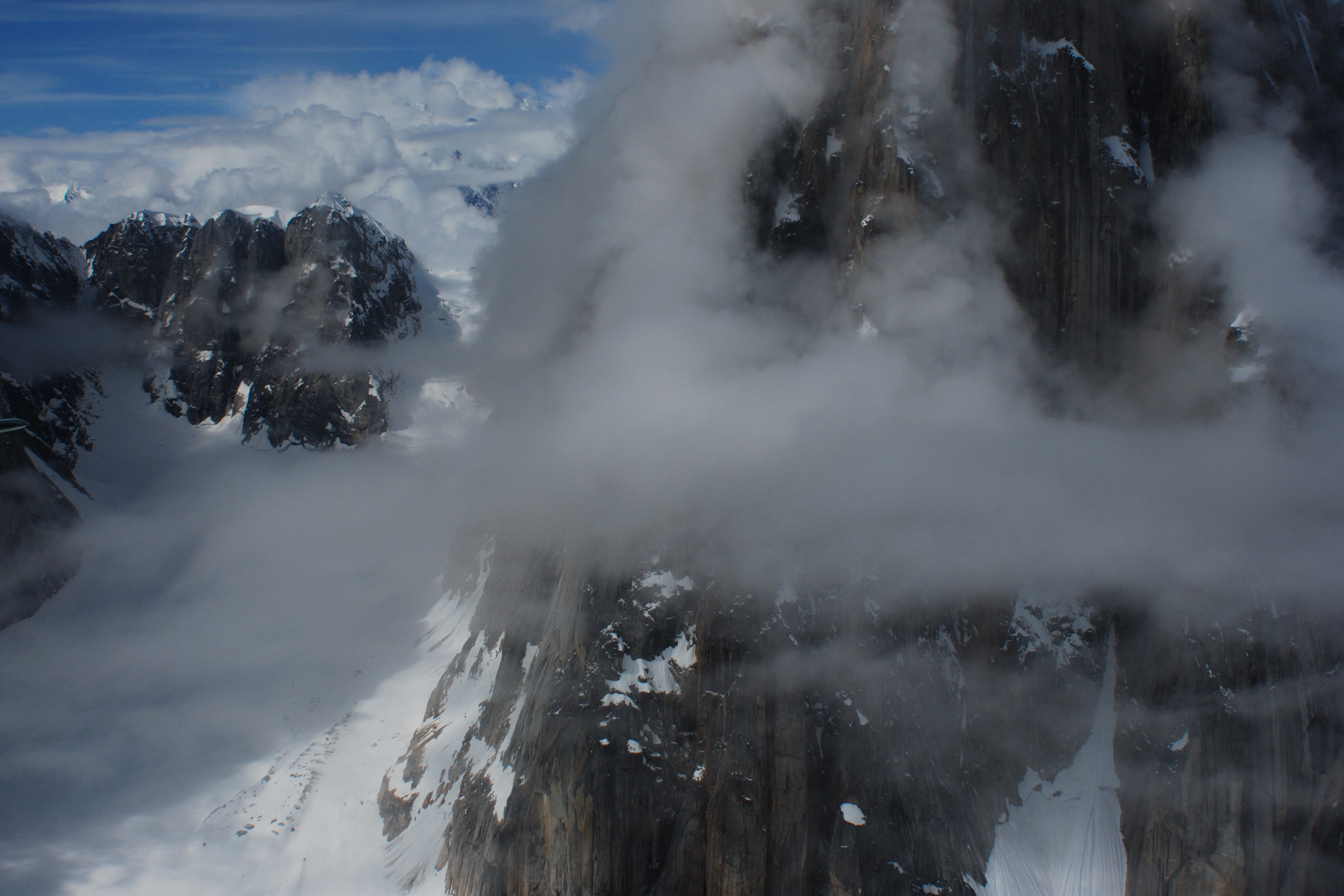 “Great Gorge” of Ruth Glacier,Alaska